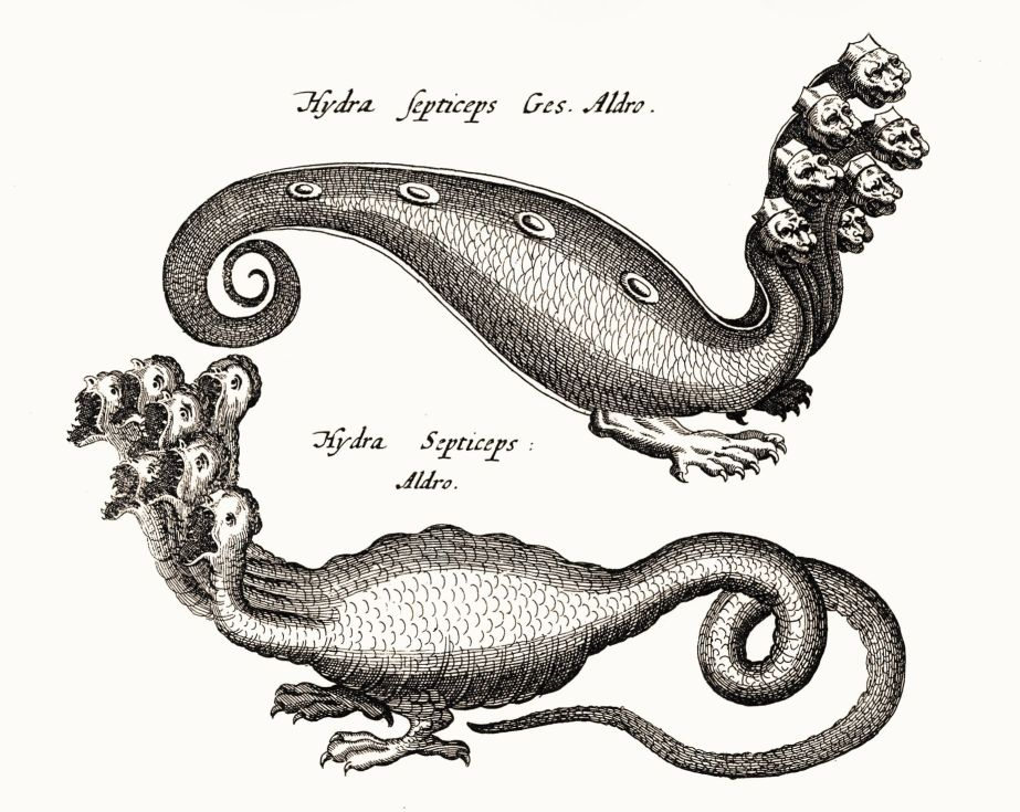 The Hydra